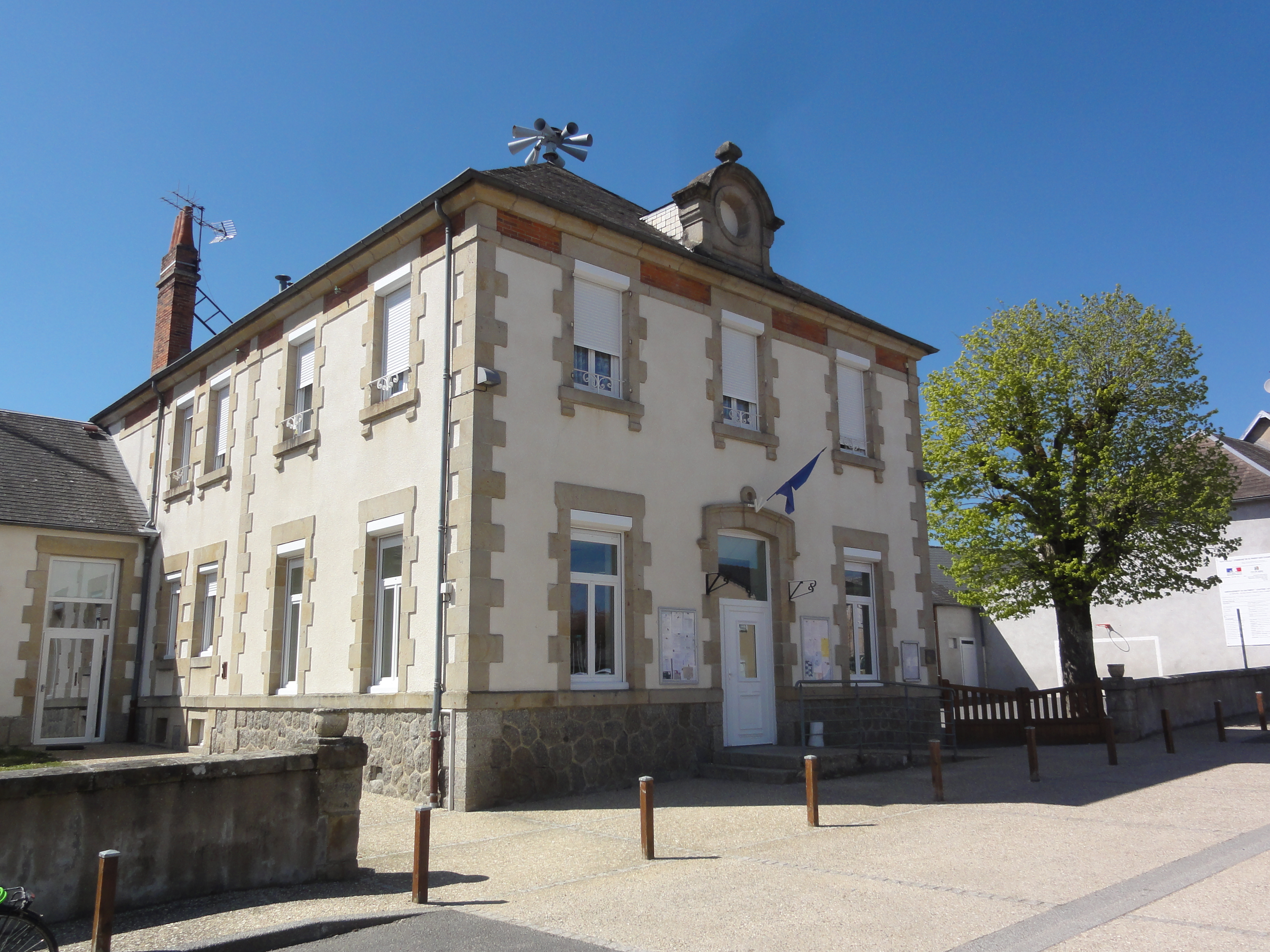 Saint-Priest-des-Champs (Puy-de-Dôme) mairie